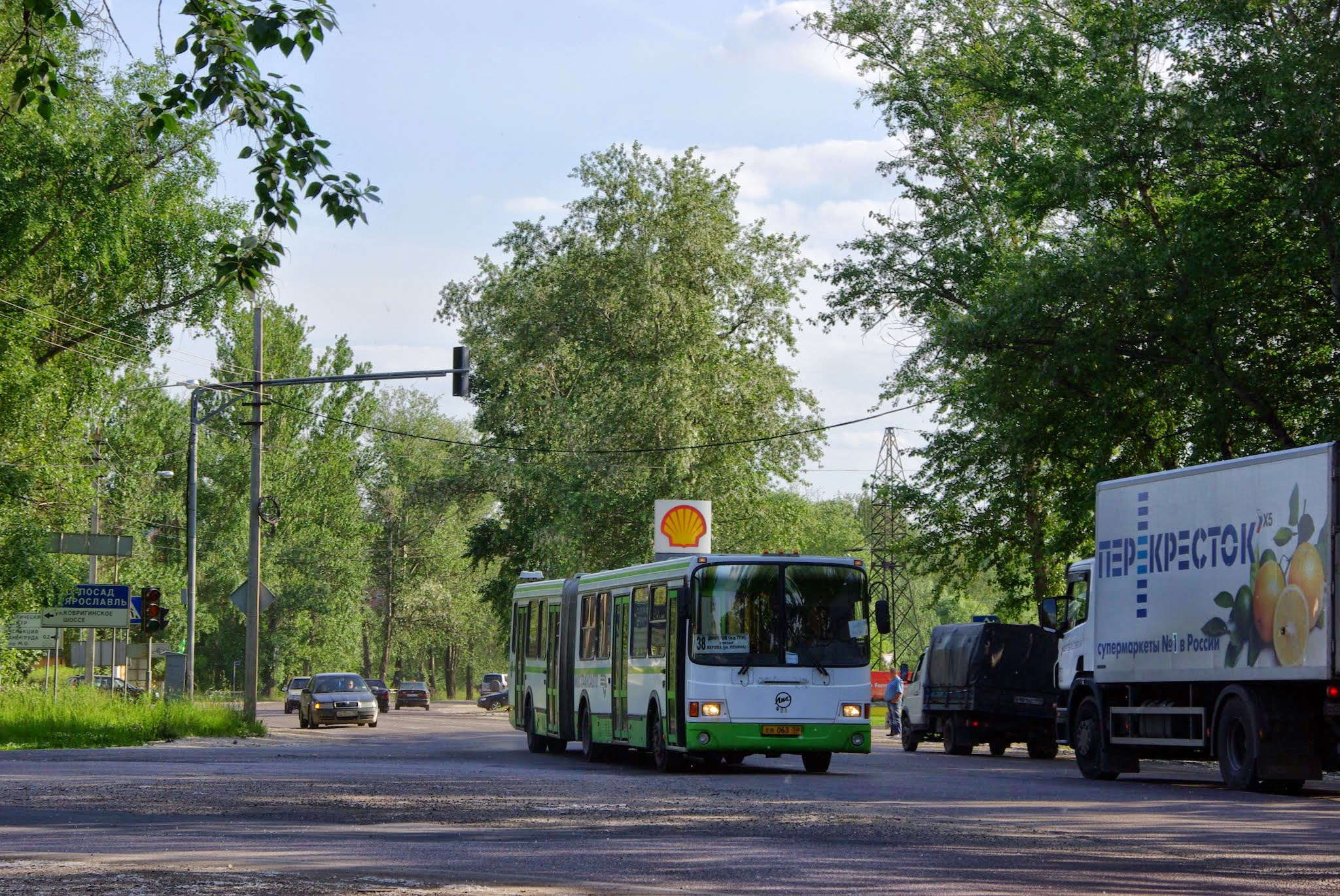 Dmitrov, Moscow Oblast, Russia